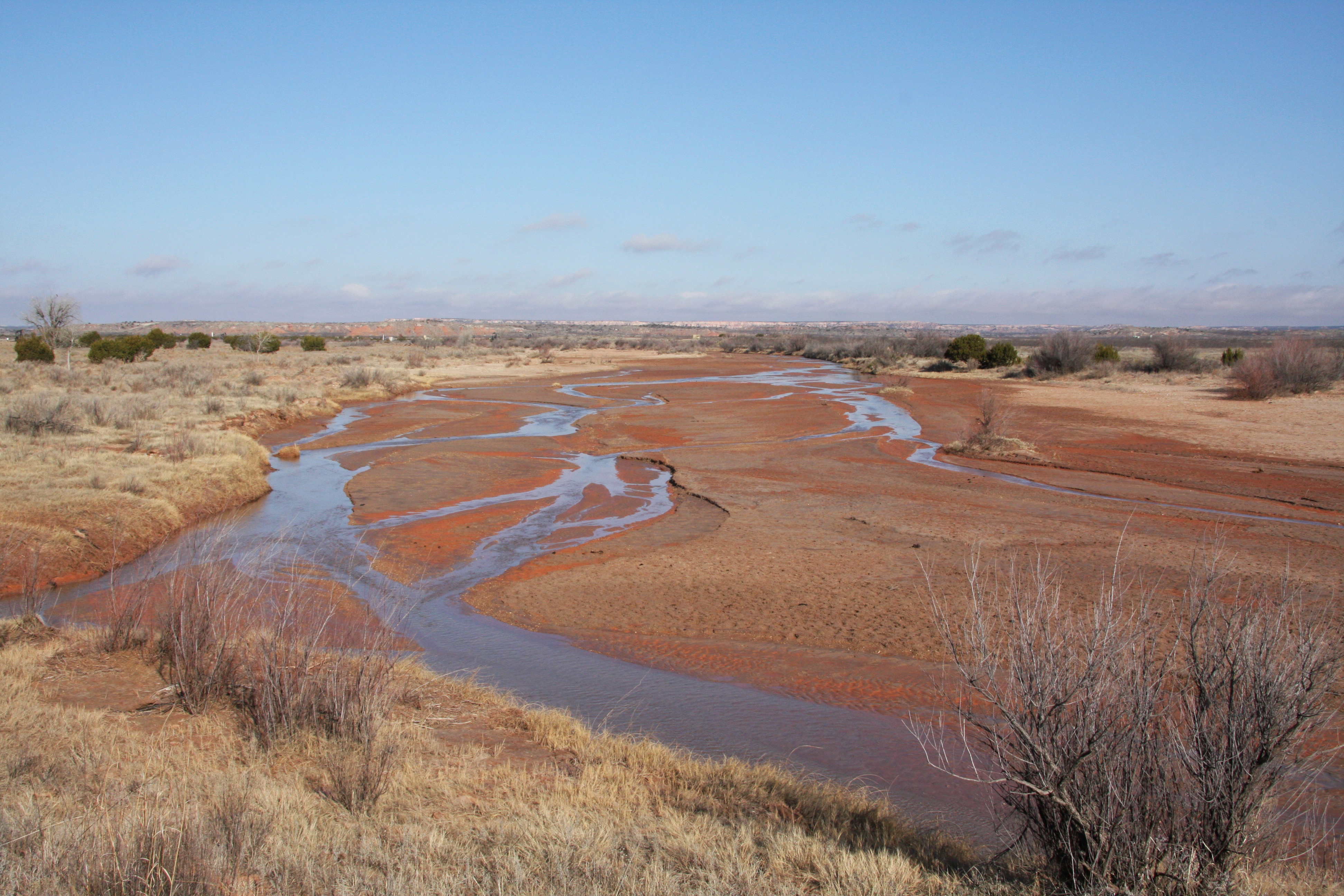 Braided stream of the Double Mountain Fork Brazos River — viewed from the Farm to Market Road 669, in Garza County, western Texas. The Double Mountain Fork is a tributary of the Brazos River, in the Llano Estacado region.